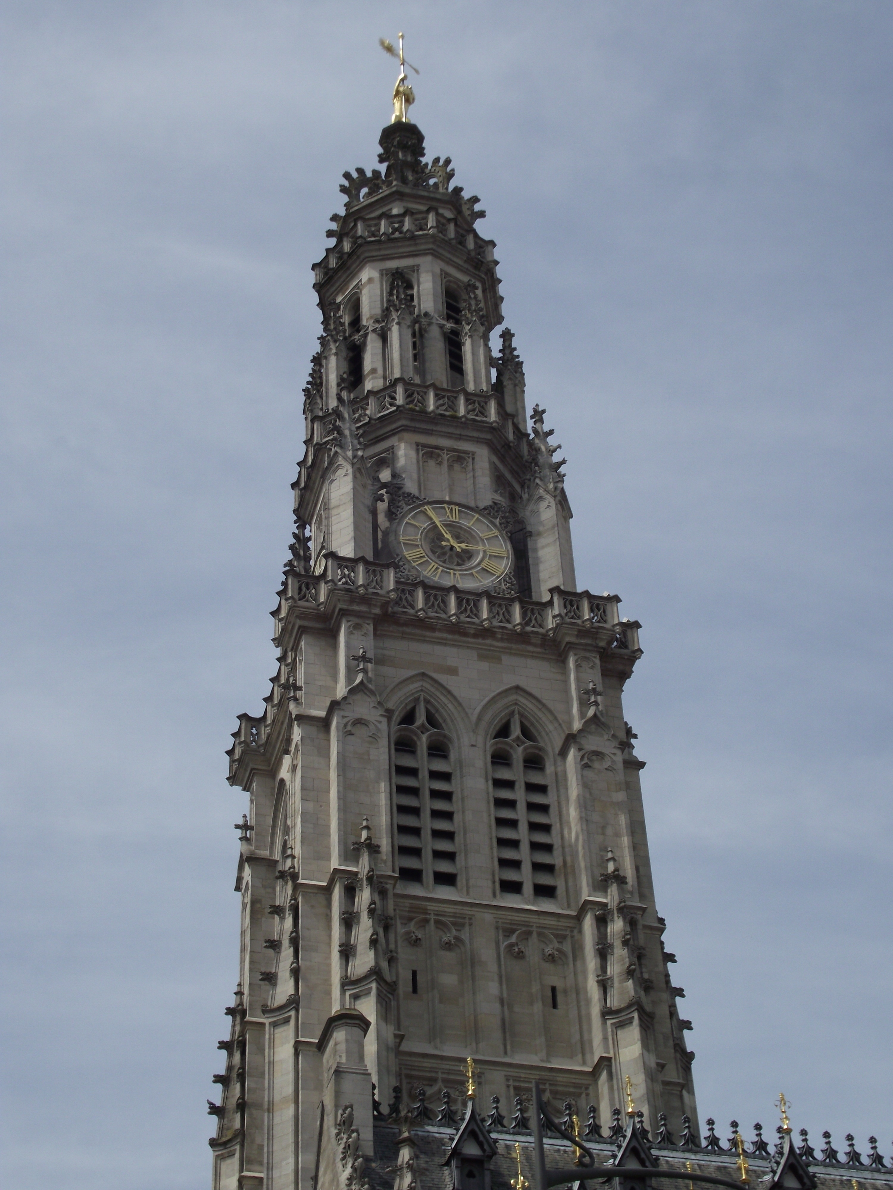 Arras, Belfry, XVI Century